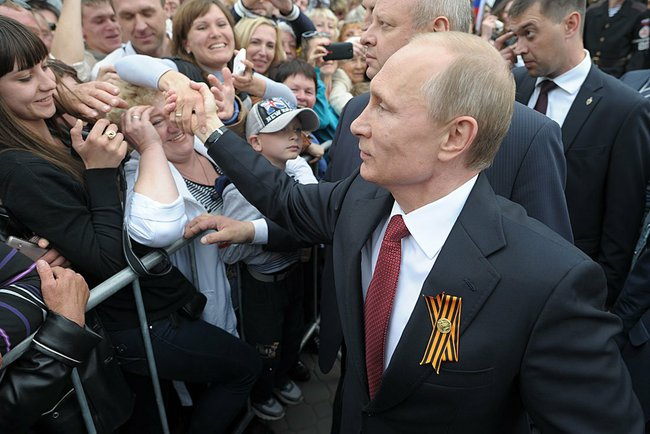 With Sevastopol residents and guests.